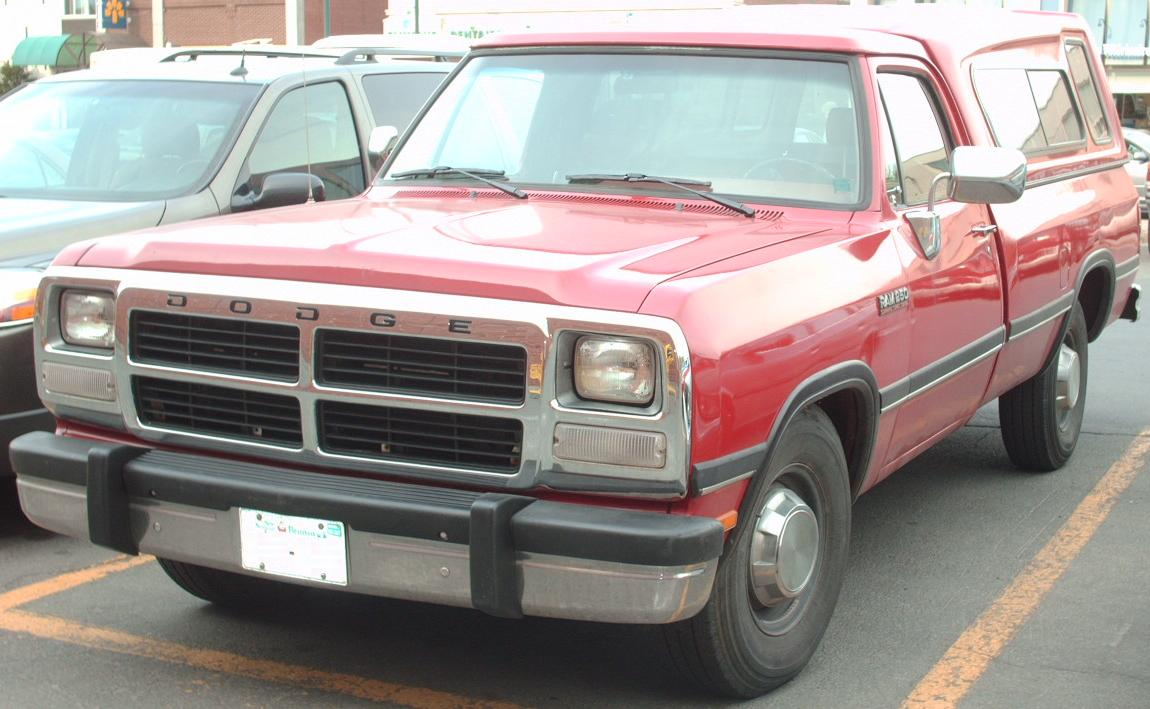 1991-1993 Dodge Ram photographed in Montreal, Quebec, Canada.